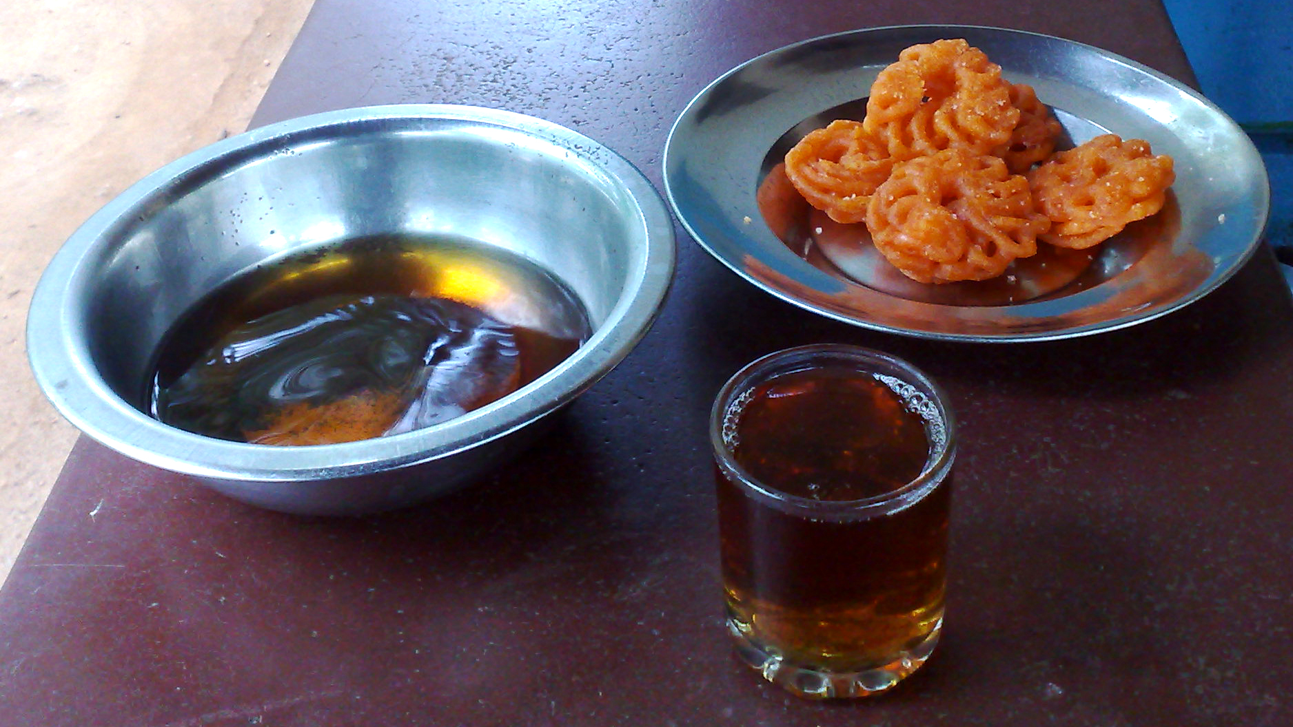 Jilebi